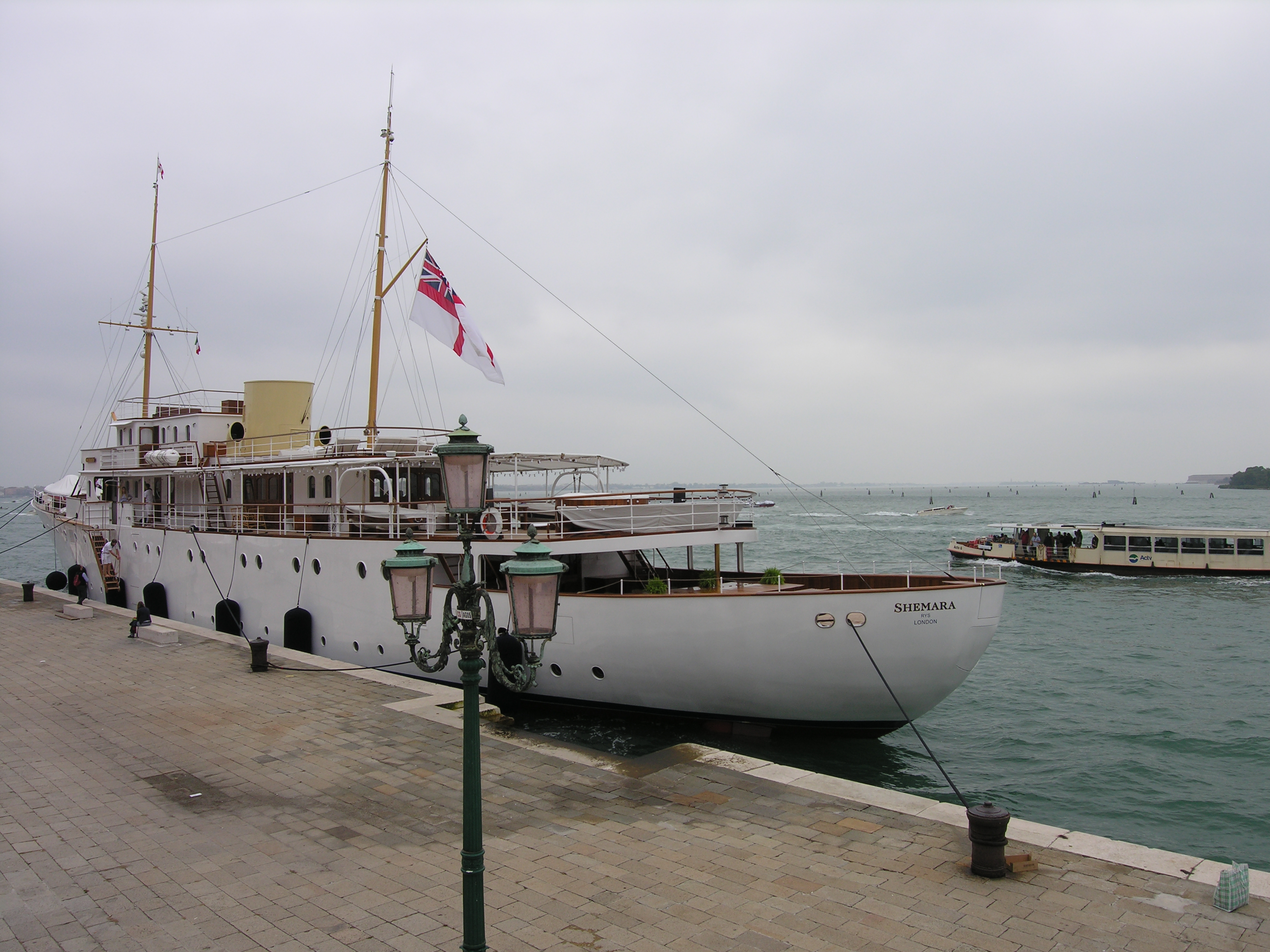 Venice, Italy